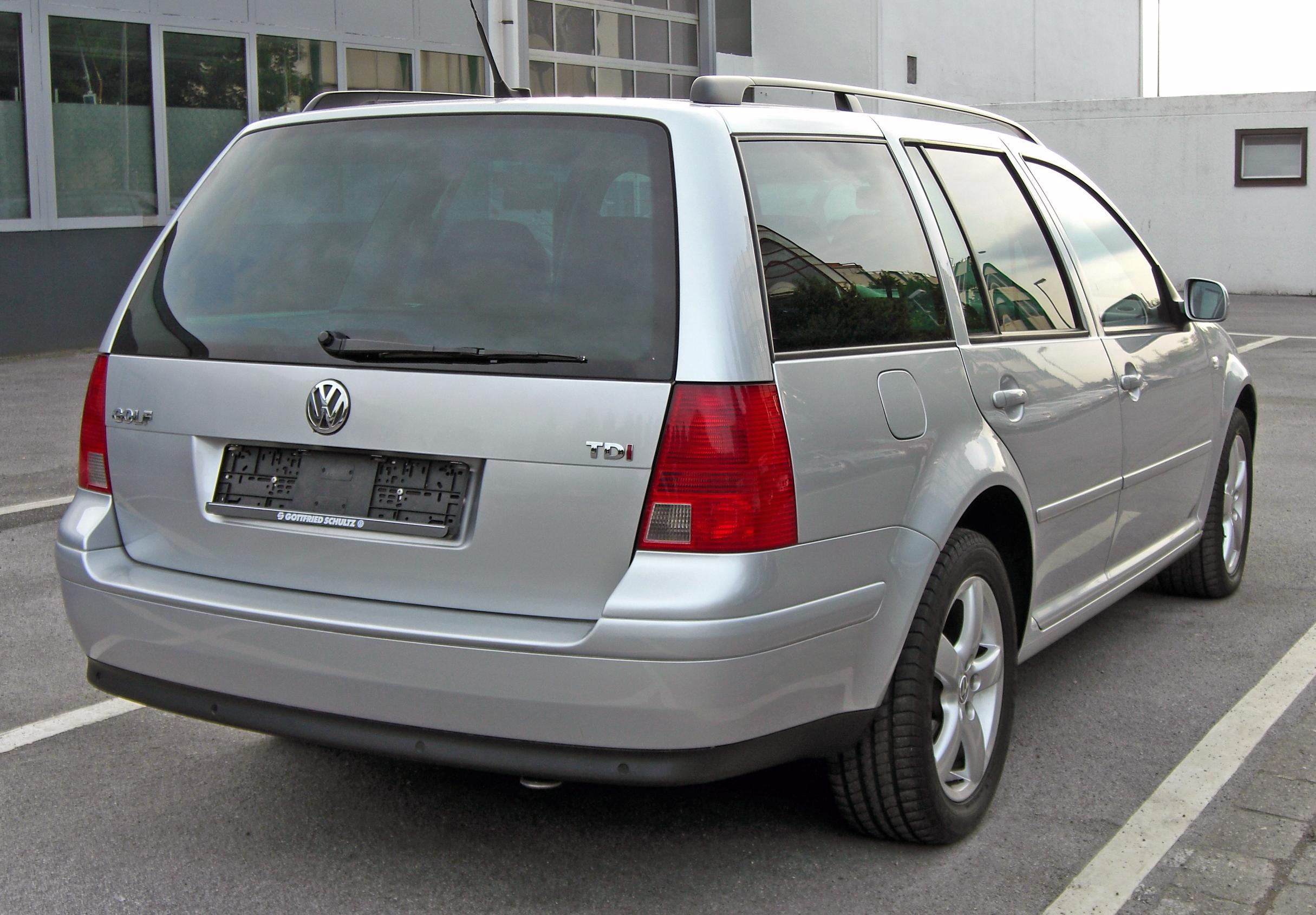 VW Golf Variant